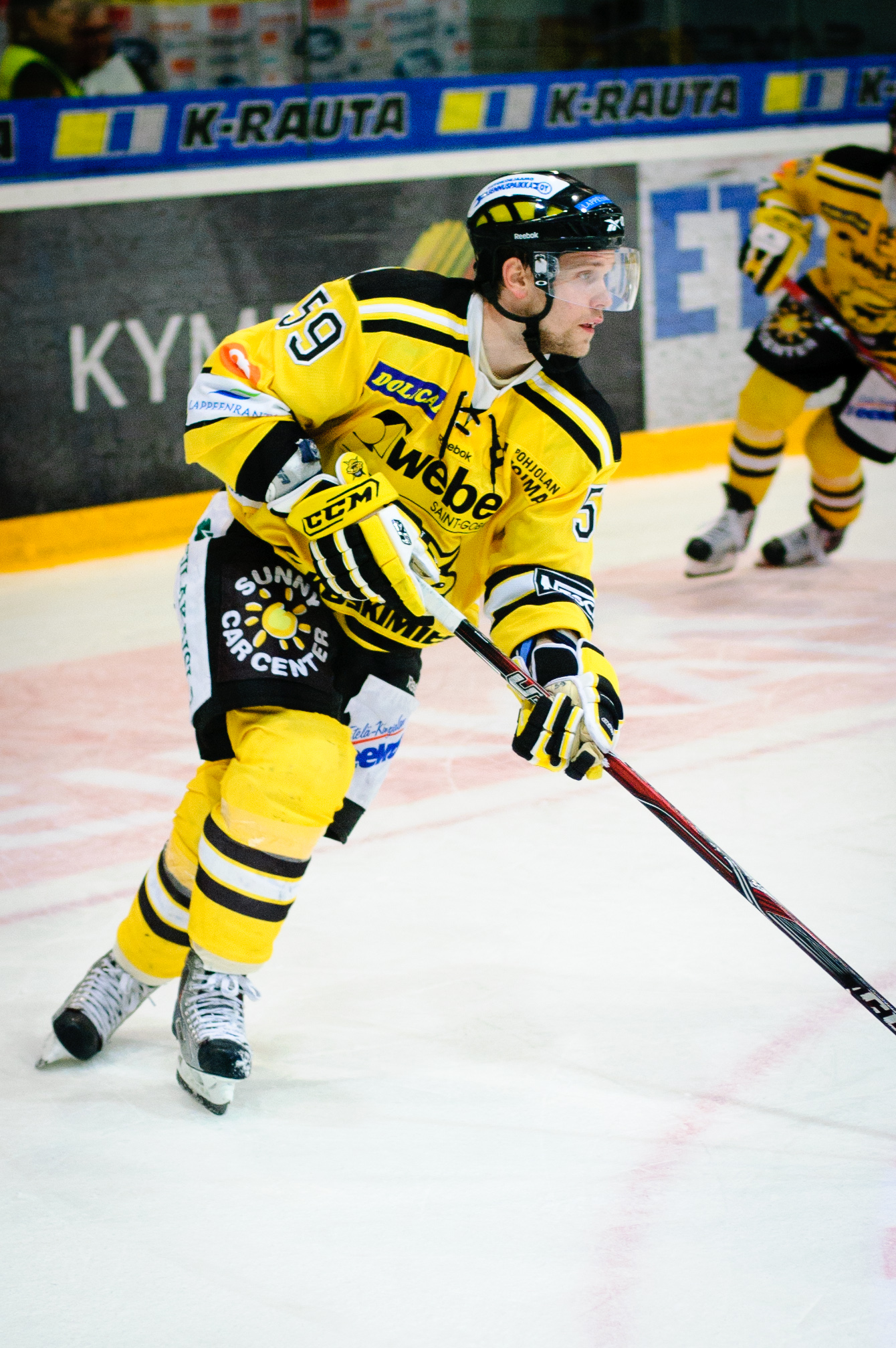 Finnish ice hockey player Jarmo Jokila playing for SaiPa Lappeenranta against IFK Helsinki in the Finnish SM-liiga in Lappeenranta, Finland.